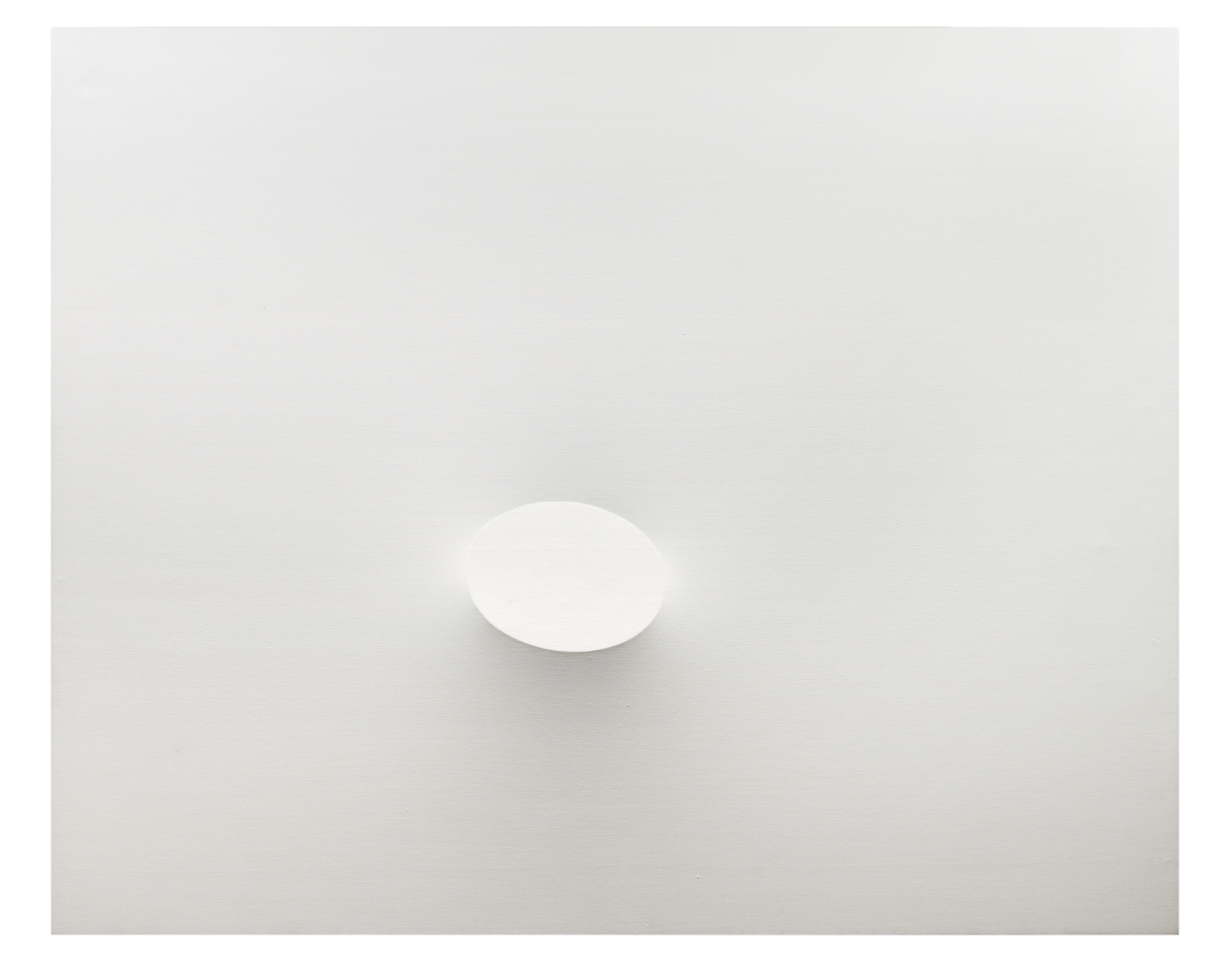 Turi Simeti. Un ovale bianco, 1977. Acrylic on shaped canvas, 130x160 cm